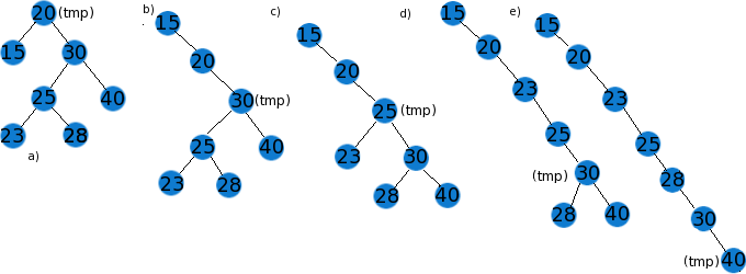 Example of DSW